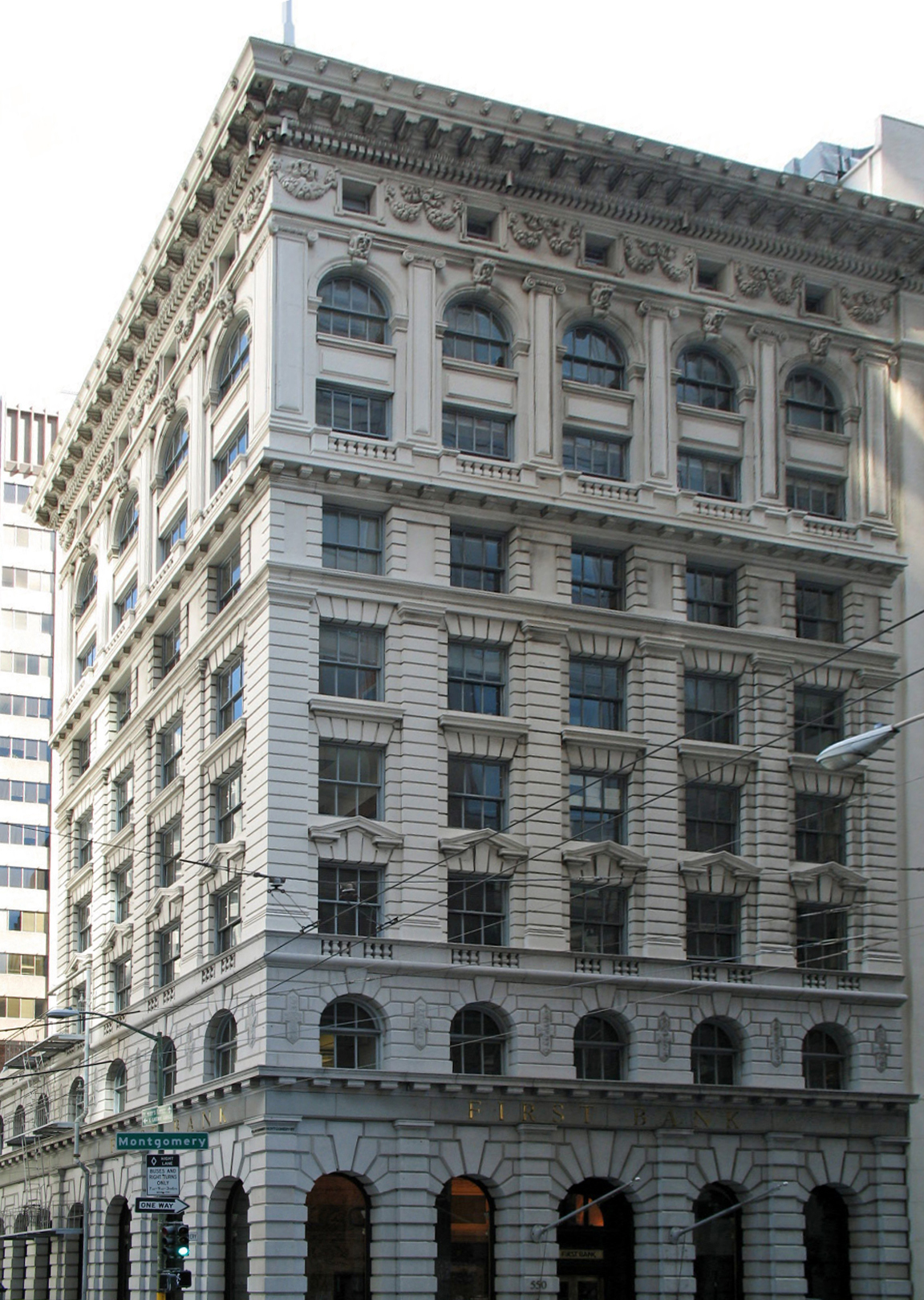 National Register of Historic Places in San Francisco, California. Bank of Italy Building, 552 Montgomery St., San Francisco, California, USA. Photographed 2008-03-02 by Mike Hofmann from northwest corner of Montgomery and Clay Sts. The building is also known as the Clay-Montgomery Building and its current address is 550 Montgomery.